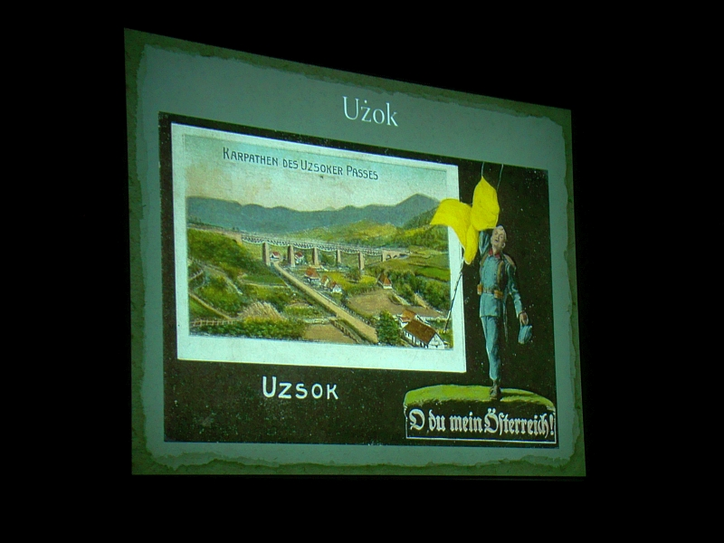 Pogranicze kultur wschodu i zachodu na starej fotografii by Wojciech Wesołkin - Czytanie Europy project, Sanok 2011